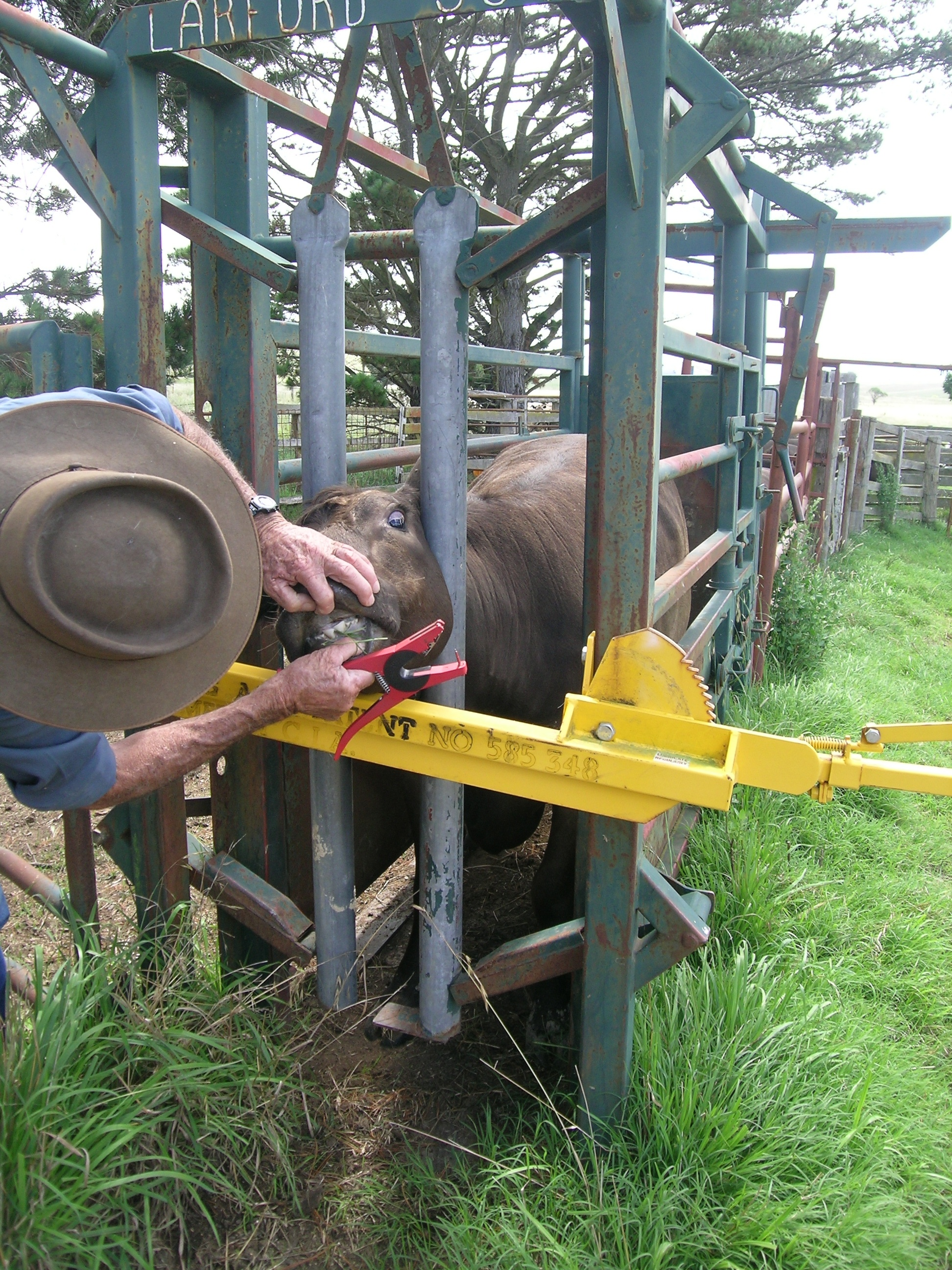 Mouthing a grass-fed heifer prior to sale with the aid of a neck or chin bar.